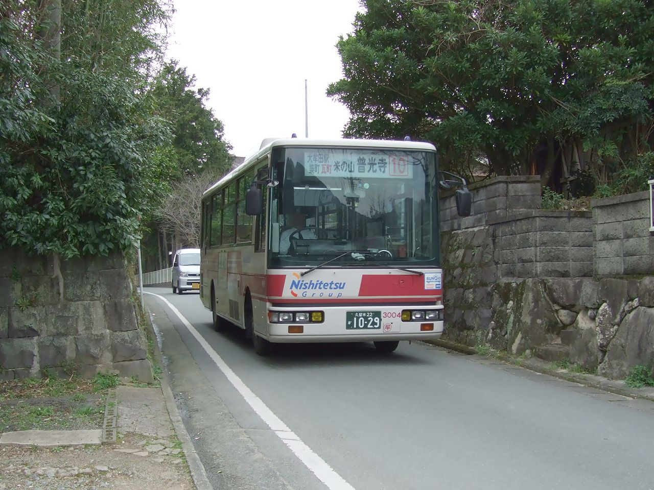 Nissan Diesel Space Runner RM with Nishi-Nippon Shatai Kogyo body for Nishitetsu Bus Omuta HQ transit bus (license plate: Kurume 22 KA 1029, in-company code: 3004) in Otogu, Omuta City, Fukuoka Prefecture, Japan